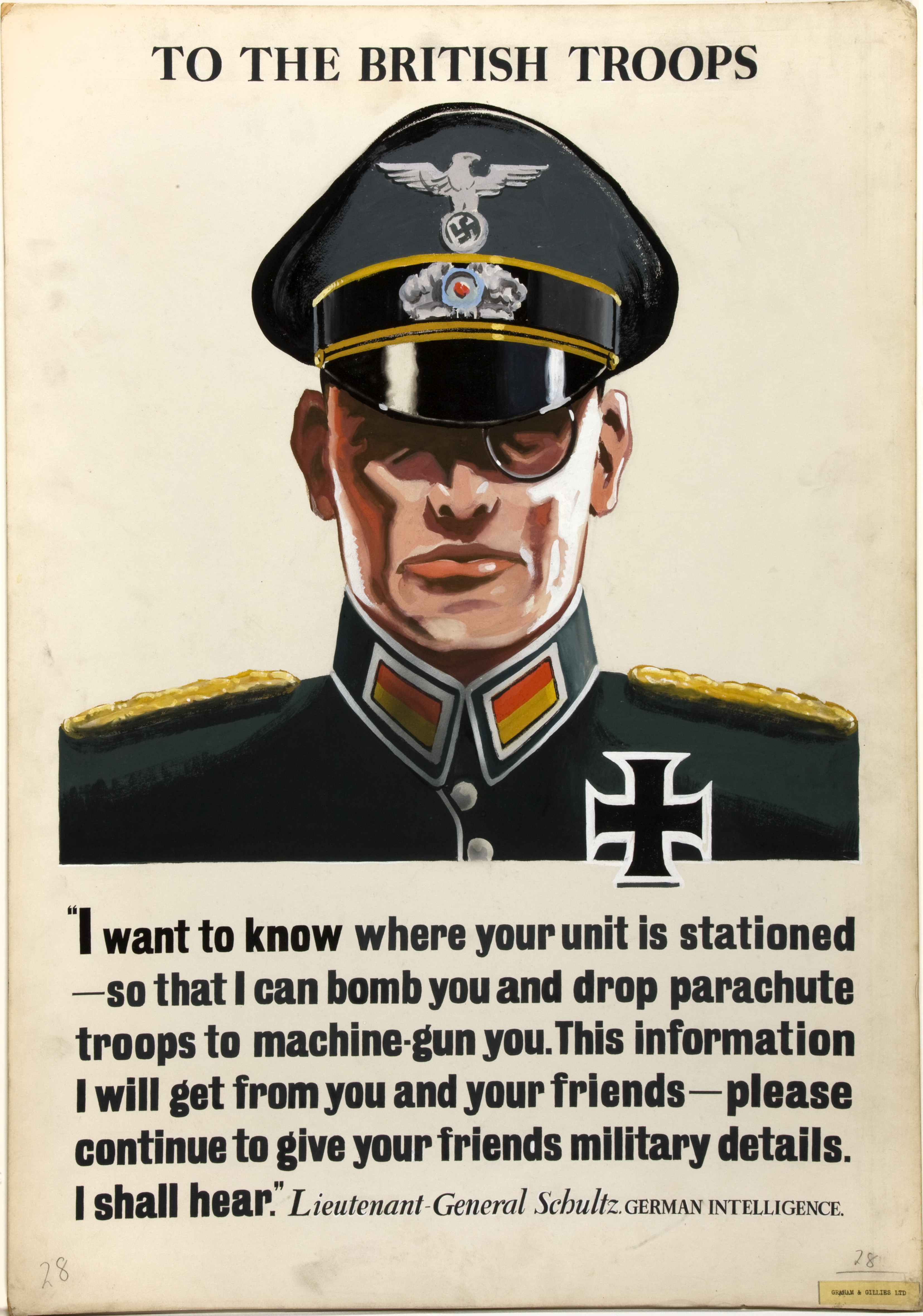 Imagined German Intelligence Officer thanks British Forces for giving away details of operations. "Graham & Gillies Ltd" advertising agency is mentioned on the bottom.